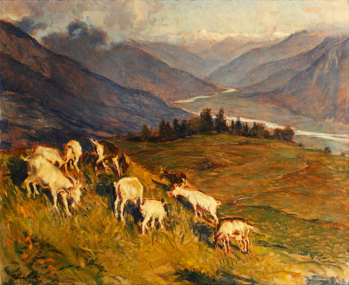 Goats grazing on a hillside